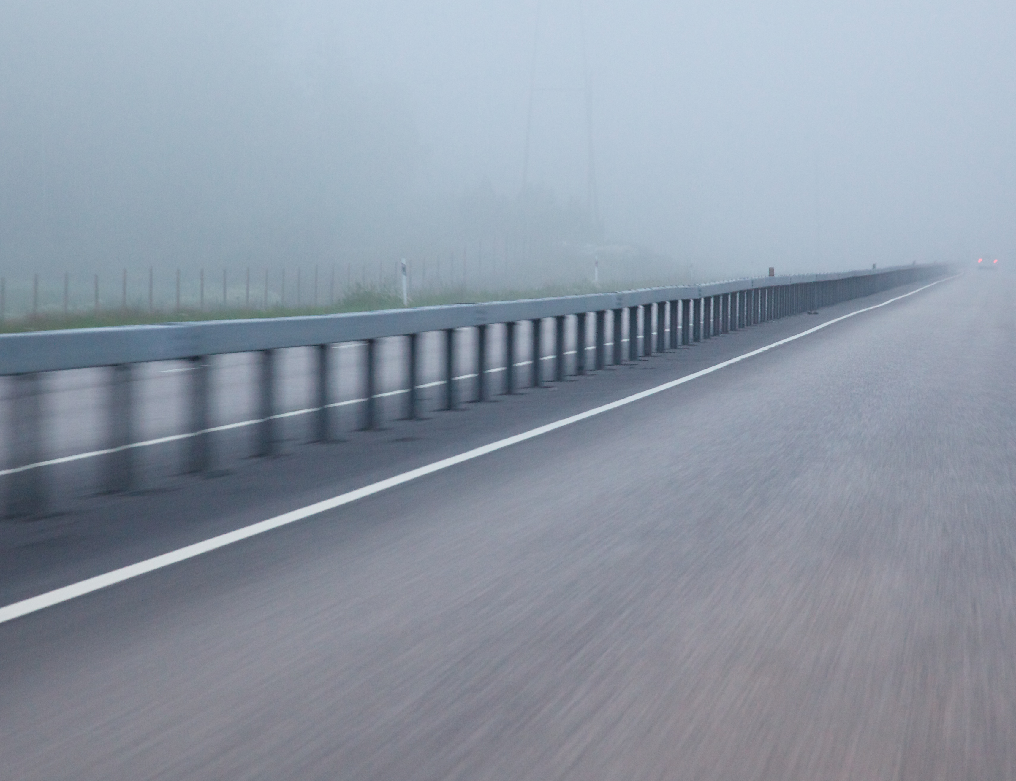 Median barrier on a road in Finland. Crash barrier (or traffic barrier) between two lines designed to be struck from either side.